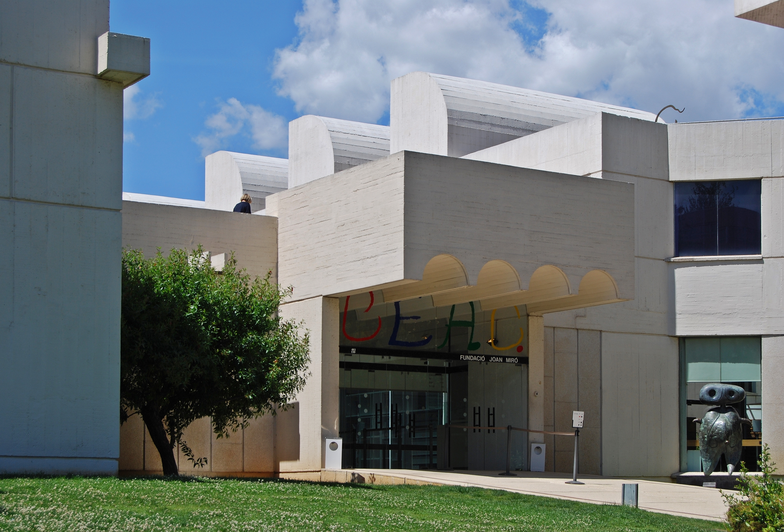 The entrance of Fundació Joan Miró, Montjuïc, Barcelona.